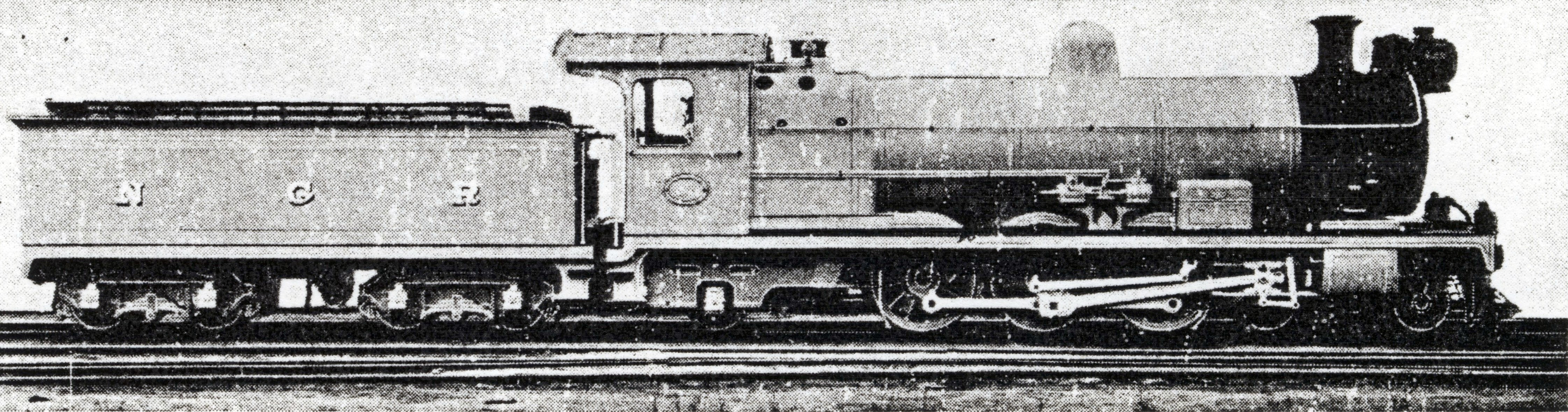 Class 2C 4-6-2 (ex Natal Government Railways)